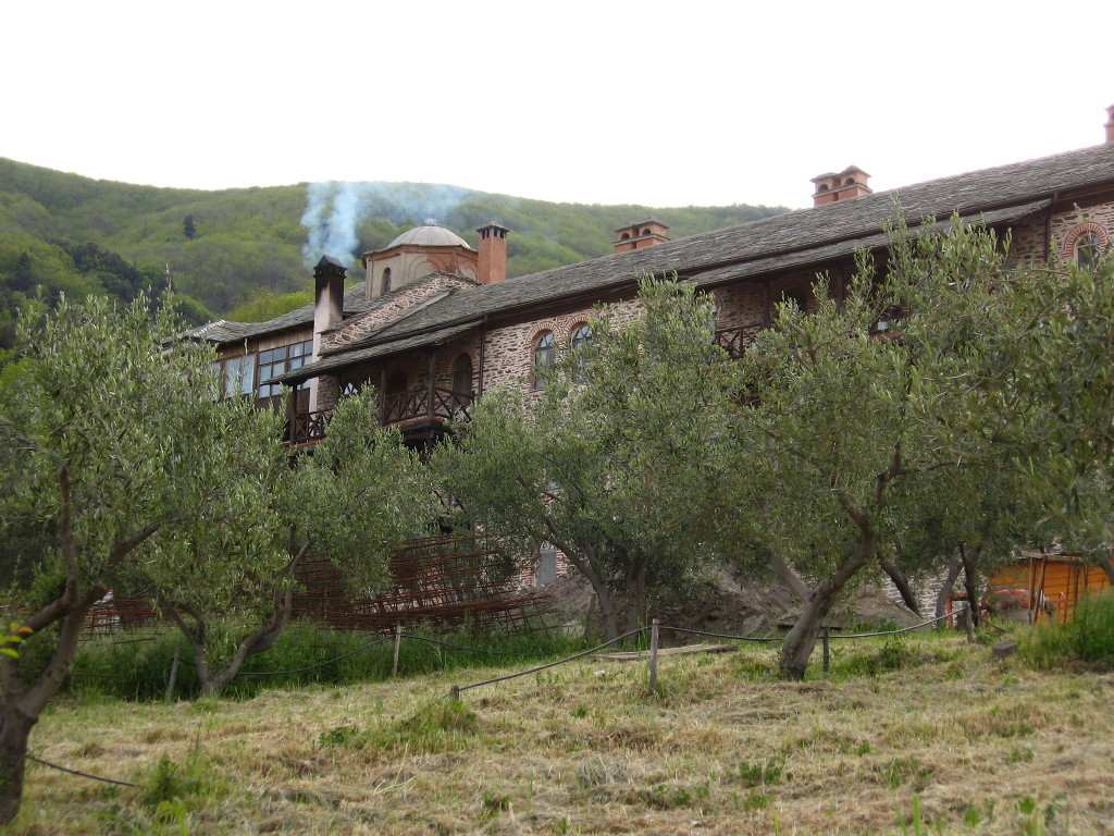 Olive trees near Koutloumousiou monastery on Mount Athos.